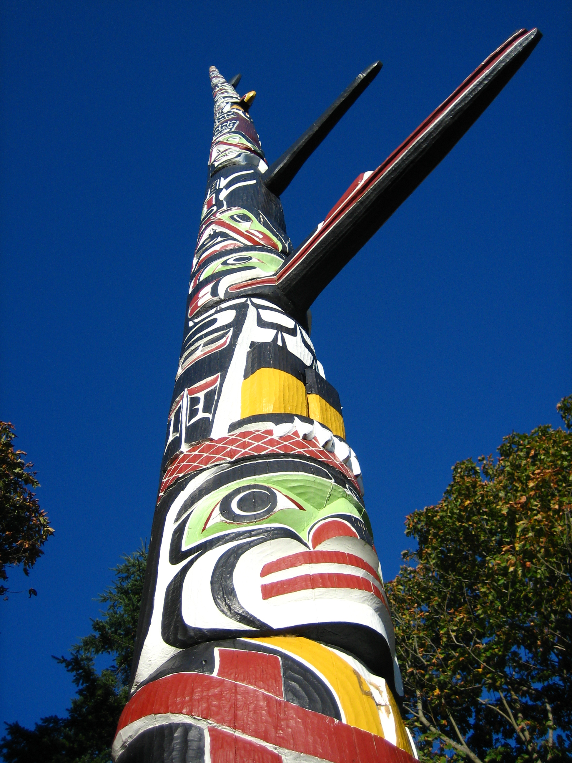 The "World's Second Tallest Totem_Pole ", (127 ft, 7 inches) located in Victoria, British Columbia. Note that other totem poles are also claimed to be the world's tallest, when picking a name, truth does not need to be the first thought on one's mind. The tallest totem in the world is located in Alert Bay BC!! Carved by Mungo Martin, David Martin, and Henry Hunt. Dedicated 2 July, 1954.